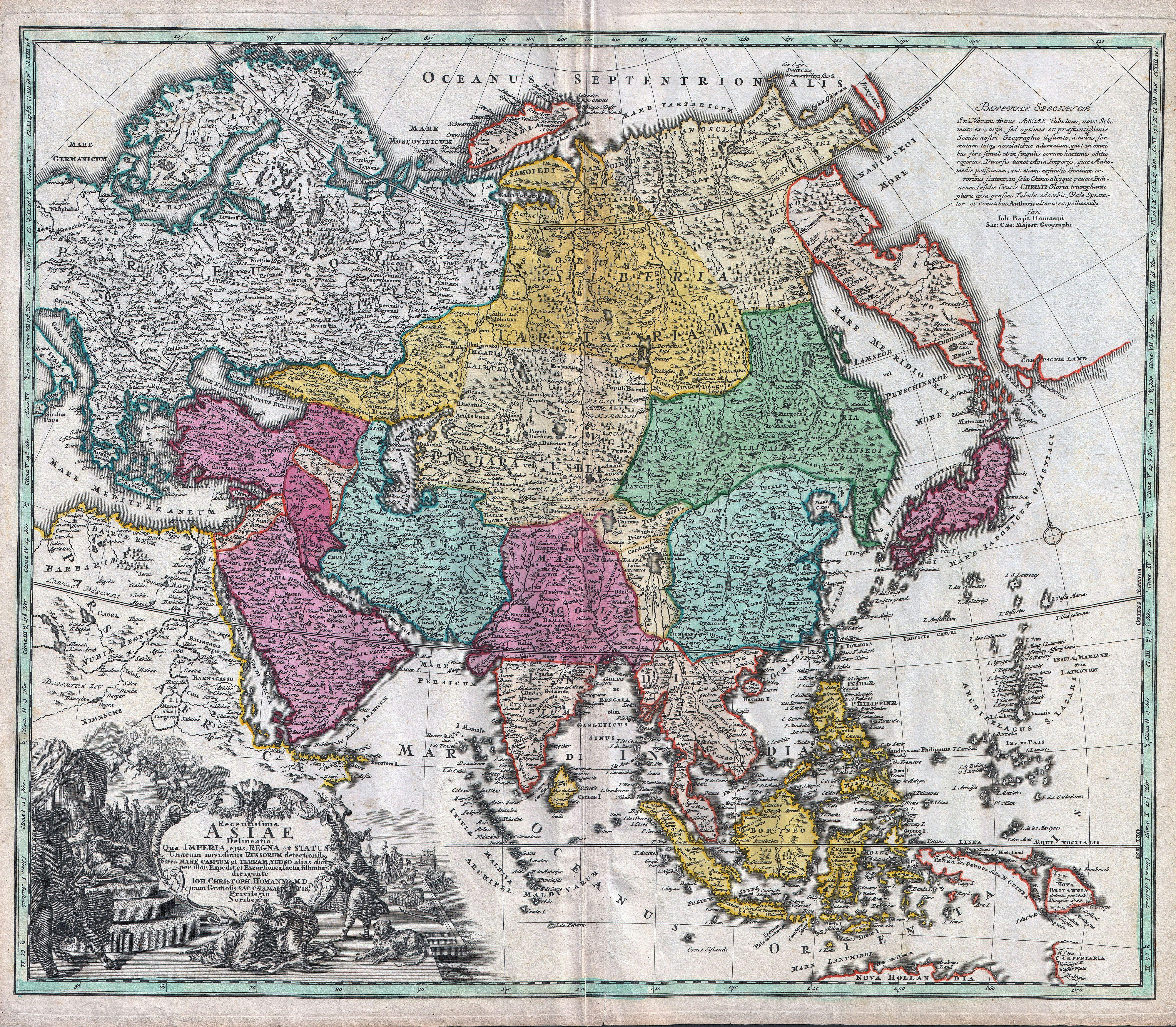 A rare and attractive 18th century map of Asia by German map publisher Johann Christoph Homann. Covers the entire continent of Asia as well as parts of Europe and northeastern Africa. This is essentially a revised and updated version of J. B. Homann’s 1712 map of Asia. Features some interesting and important updates. Most notably, we see the addition of the Kamchatka Peninsula in the upper right hand quadrant. The lower part of the peninsula is labeled “Kurilorum Regio”, no doubt an early reference to the Kuril Islands. While Hokkaido is not present, Japan itself is separated from the mainland by a small archipelago. Just east of these islands we see the Canal de Piecko, and beyond that a large and curious land mass labeled Compagnie Land. Compagnie Land is a mythical landmass that can be traced the work of an unknown Spanish pilot who supposedly traveled from China to New Span and published his finding along with the works of Thevenot. Present in both the 1712 map and this one, Compagnie’s Land could possibly be an early representation of Alaska or a misrepresentation of Hokkaido. Korea or Corea is present if misshapen in roughly the correct location. Further south New Guinea, New Britannia, Australia (New Holland), Hoch Land, and Carpentaria (part of Australia) are personated in tentative form with largely unexplored boundaries. At the center of the map the Caspian Sea is displayed according to the 1722 surveys of Karl van Verden. Bottom left quadrant features a decorative title cartouche displaying an enthroned king in Middle Eastern or Indian garb, exotic animals including a lion and leopard, trade goods, Camels, and bowing supplicants. A spectacular and important 18th century map of Asia.